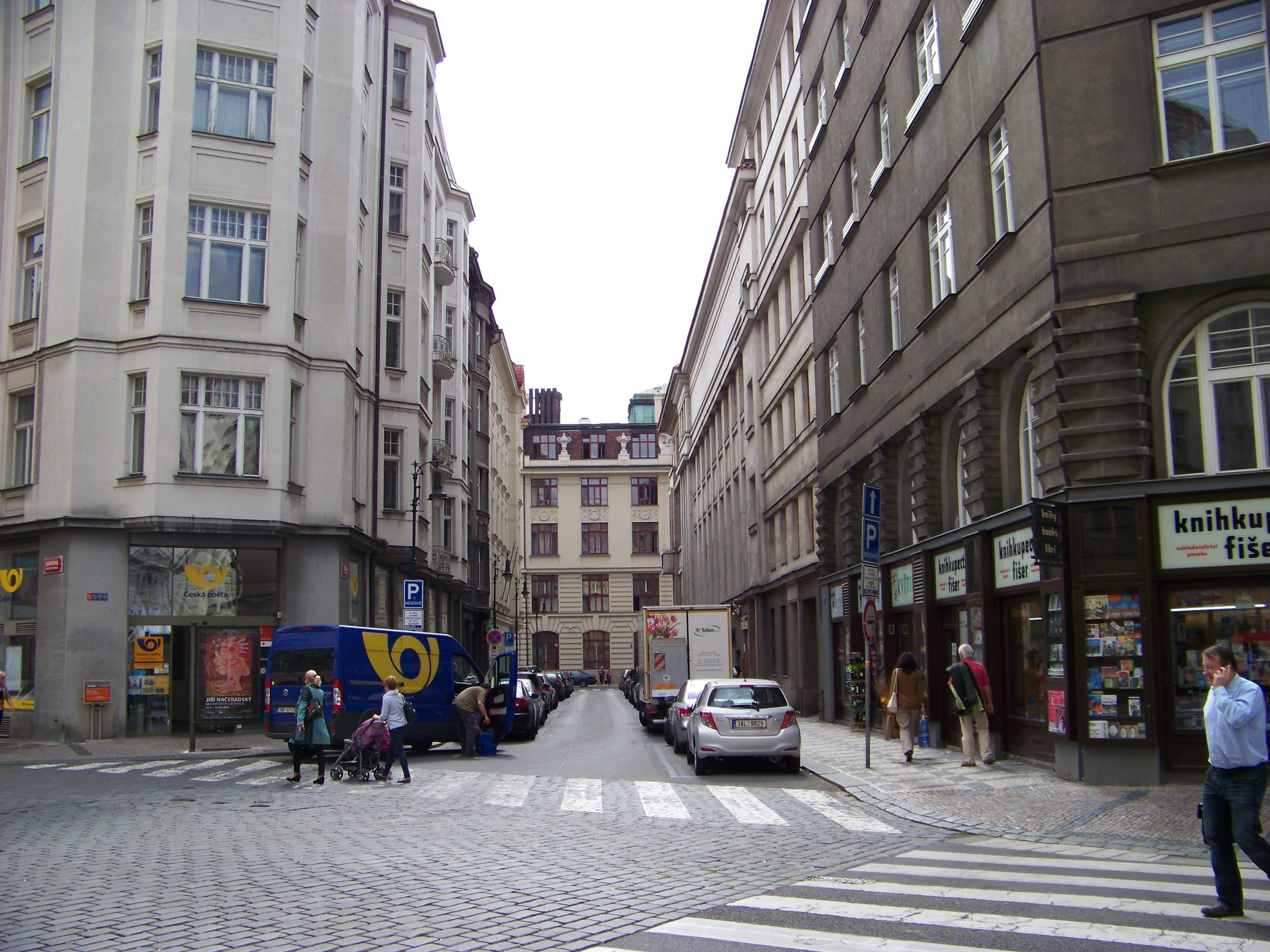 Prague-Old Town. Žatecká street. - OpenStreetMap(Info)